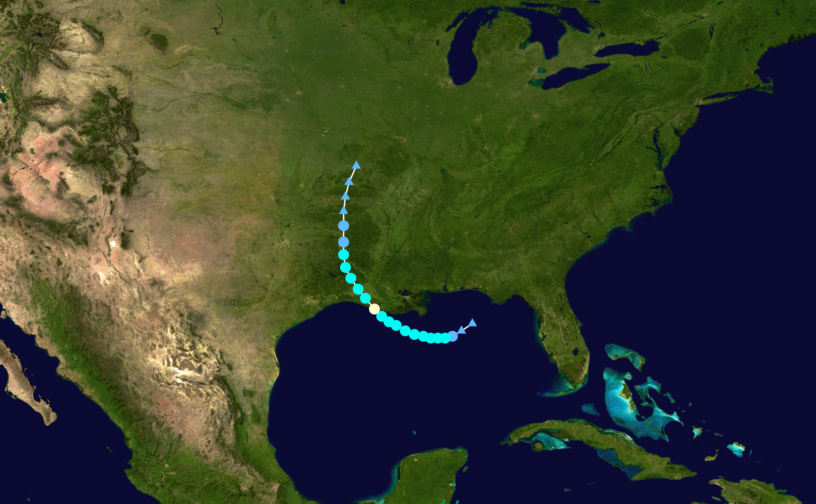 Track map of Hurricane Barry of the 2019 Atlantic hurricane season. The points show the location of the storm at 6-hour intervals. The colour represents the storm's maximum sustained wind speeds as classified in the Saffir–Simpson scale (see below), and the shape of the data points represent the nature of the storm, according to the legend below. Saffir–Simpson scale Tropical depression≤38 mph≤62 km/h Category 3111–129 mph178–208 km/h Tropical storm39–73 mph63–118 km/h Category 4130–156 mph209–251 km/h Category 174–95 mph119–153 km/h Category 5≥157 mph≥252 km/h Category 296–110 mph154–177 km/h Unknown Storm type Tropical cyclone Subtropical cyclone Extratropical cyclone / Remnant low / Tropical disturbance / Monsoon depression